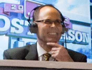 Johnson calls the New York Yankees at Baltimore Orioles ALDS Game 1 for TBS on October 7, 2012.